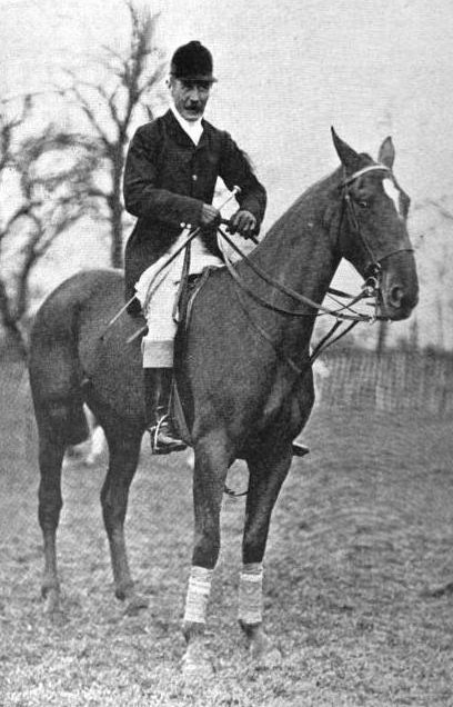 James Tomkinson, M.P. at the House of Commons Steeplechase. This photograph was taken shortly before the race in which he died from a fall.